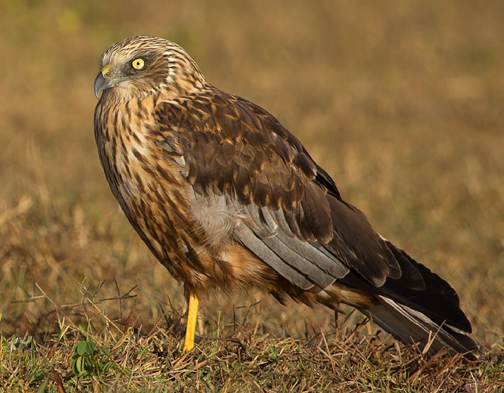 An adult at Category:Hessarghatta Lake